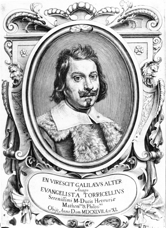 Frontispiece to "Lezioni accademiche d'Evangelista Torricelli...", published in 1715. Library Call Number Q155 .T69 1715.